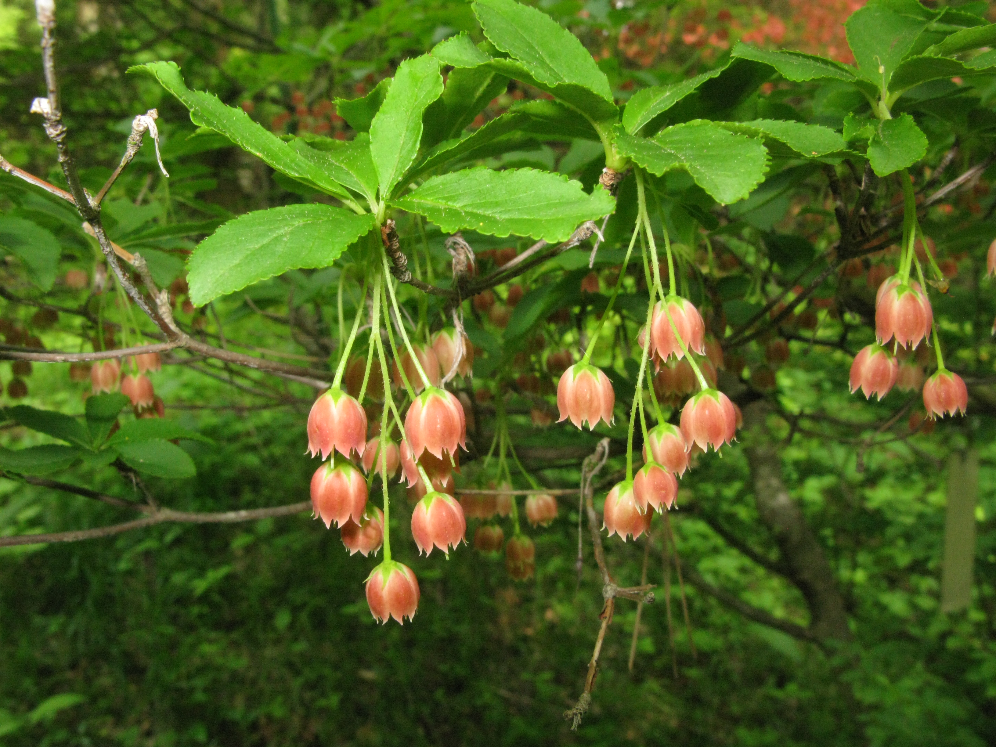 Enkianthus cernuus f. rubens, Botanical Gardens, Nikko, Graduate School of Science, The University of Tokyo, Tochigi pref., Japan